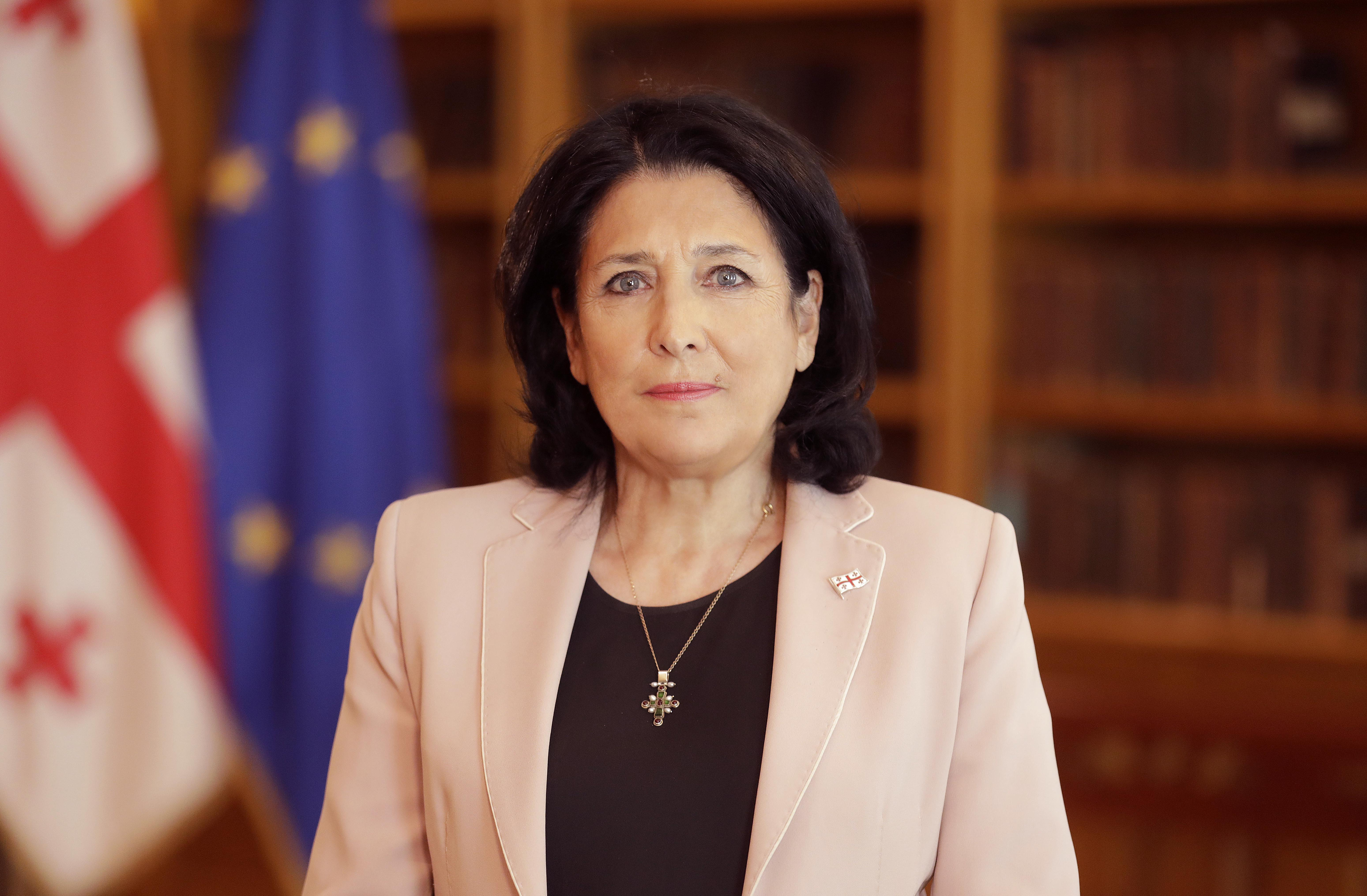 Cover photo of the Address by Georgian President Salome Zourabichvili on 9 May 2020, commemorating Victory Day and Europe Day.